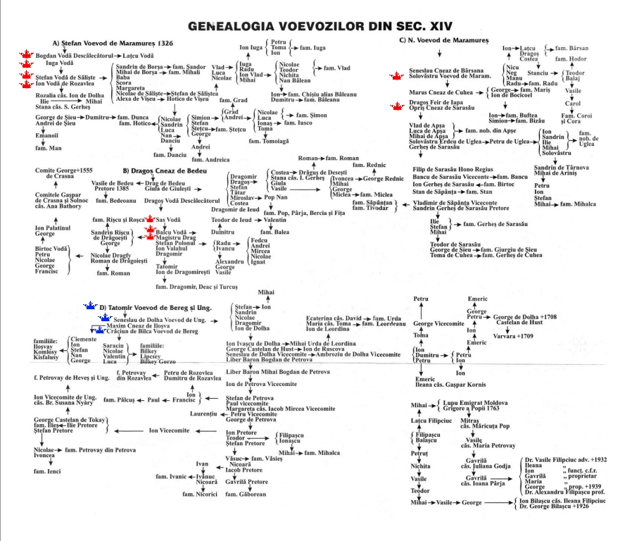 Genealogia Voievozilor din secolul XIV.jpg